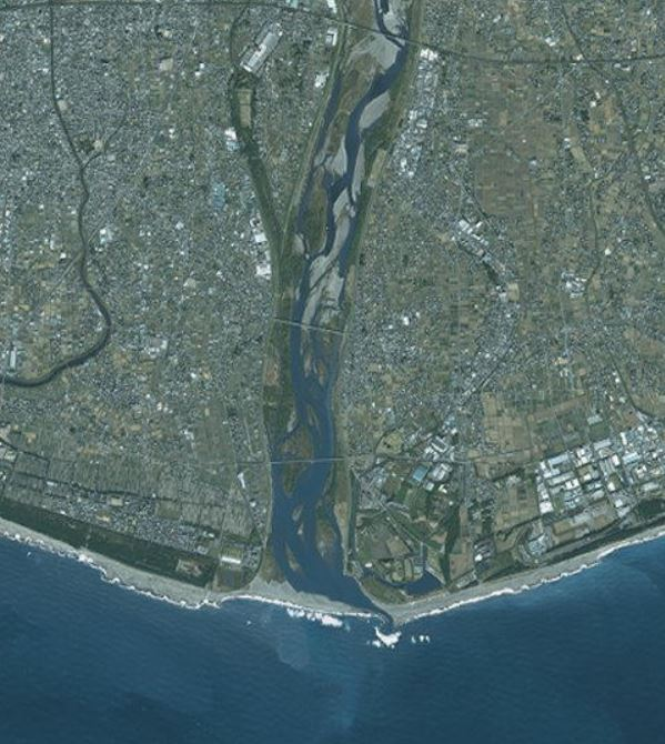 Japan : the Tenryū river flowing towards the Enshū sea in Hamamatsu.